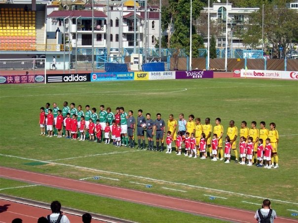 Pegasus and Taipo FC at Tai Po Sports Ground